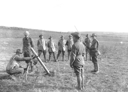 An Australian trench mortar class, in an open field, receiving instruction in the operation of a Stokes mortar. Location : Lahoussoye, France. NOTE : This version of the photograph has brightness and contrast artificially increased to highlight details.